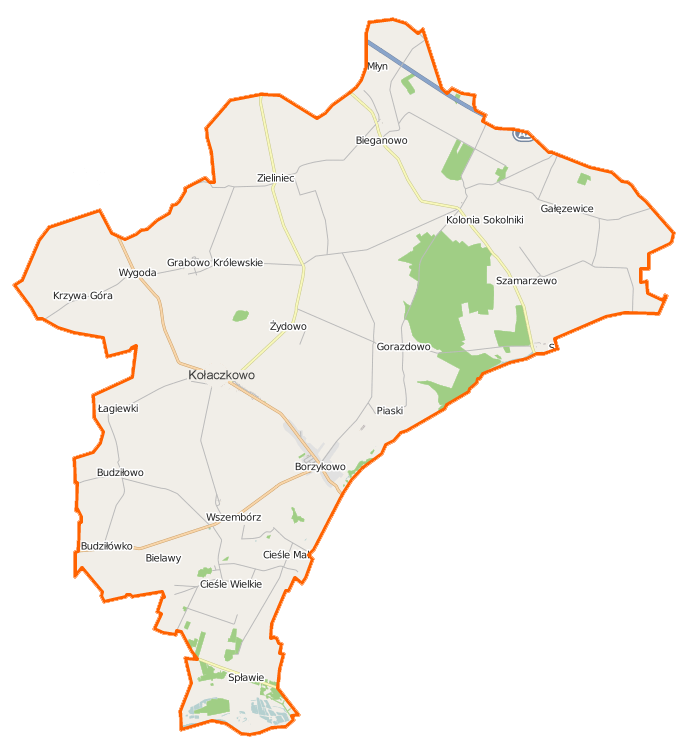 Map of Gmina Kołaczkowo, Poland This map of Kołaczkowo (gmina) was created from OpenStreetMap project data, collected by the community. This map may be incomplete, and may contain errors. Don't rely solely on it for navigation.